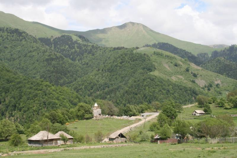 Tsru, South Ossetia